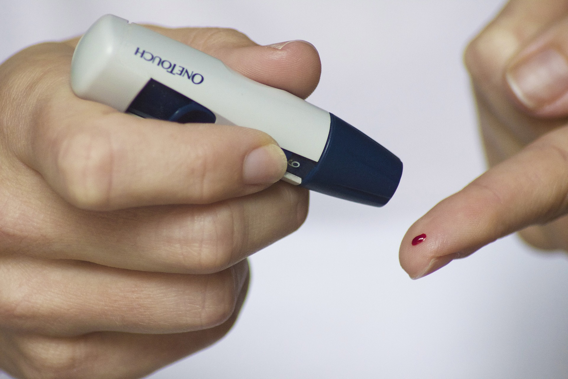 The picture of a woman testing her blood sugar levels.